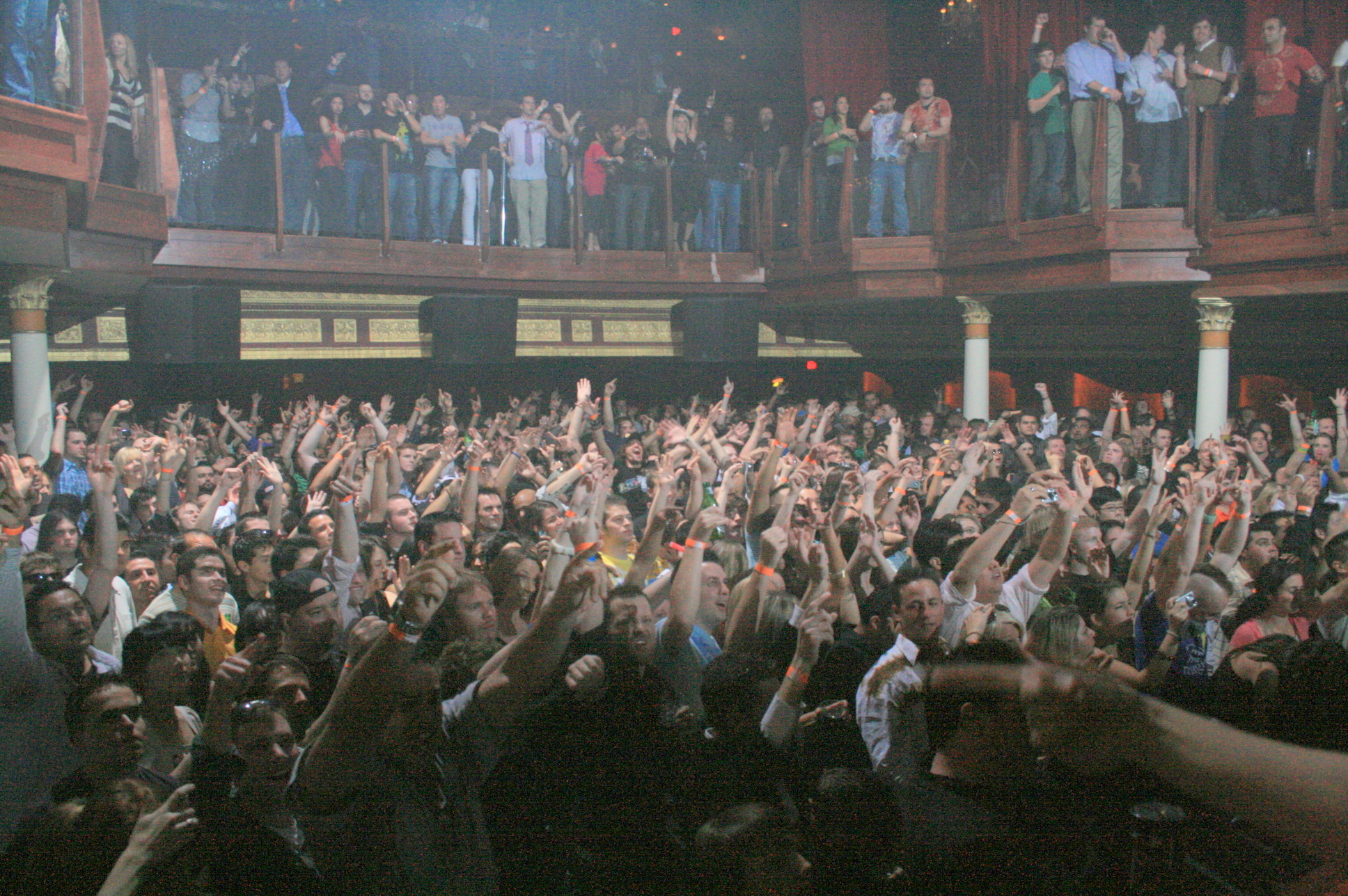 Crowd dancing at a Paul van Dyk rave in Atlanta, Georgia.